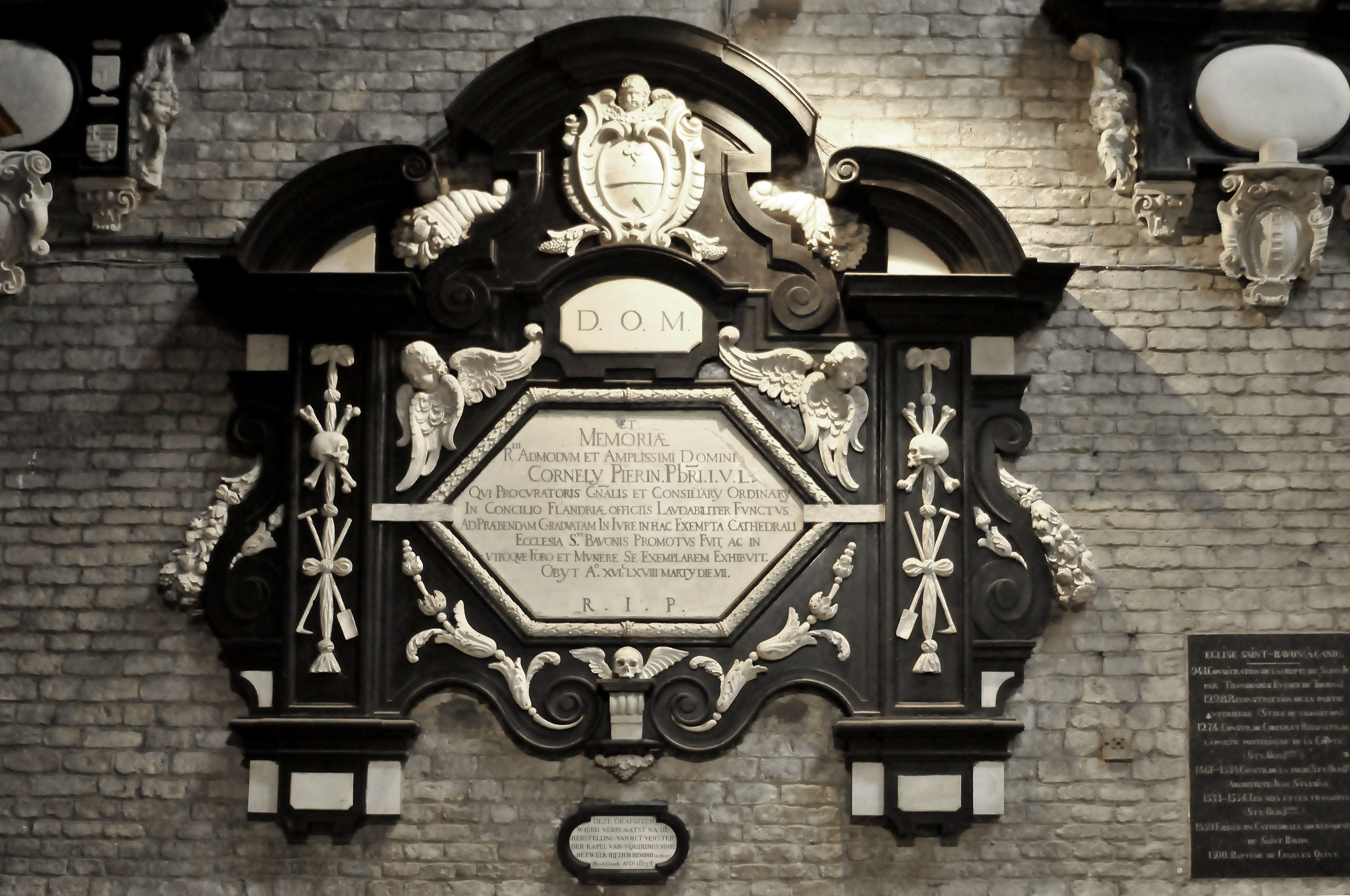 Wall grave in St. Bavo [Sint-Baaf] cathedral. Ghent, Belgium